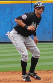 Aaron Boone 19:36, 5 June 2007 . . Chrisjnelson . . 181×283 (92,094 bytes)